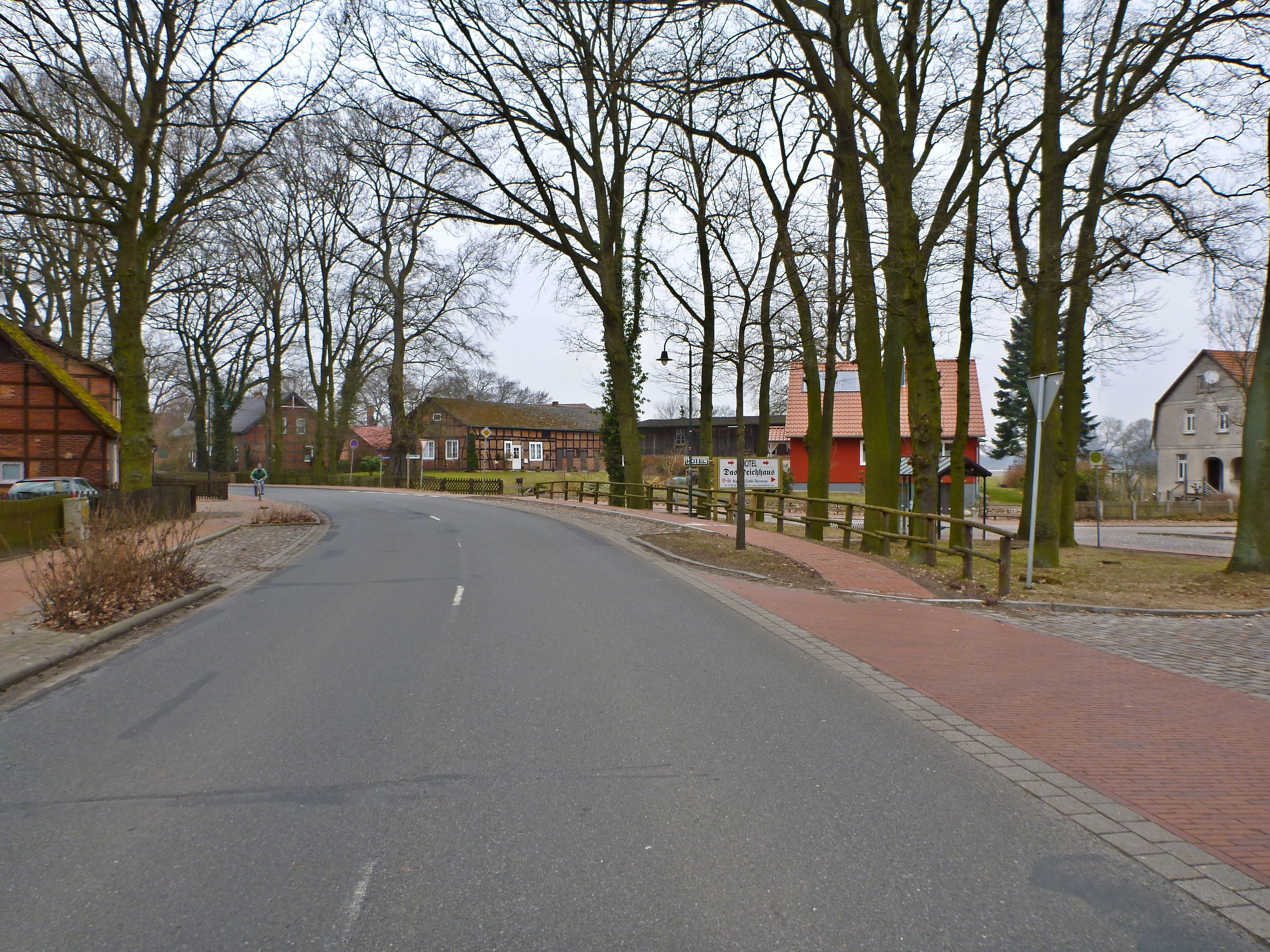 Mainstreet L256 in Gorleben